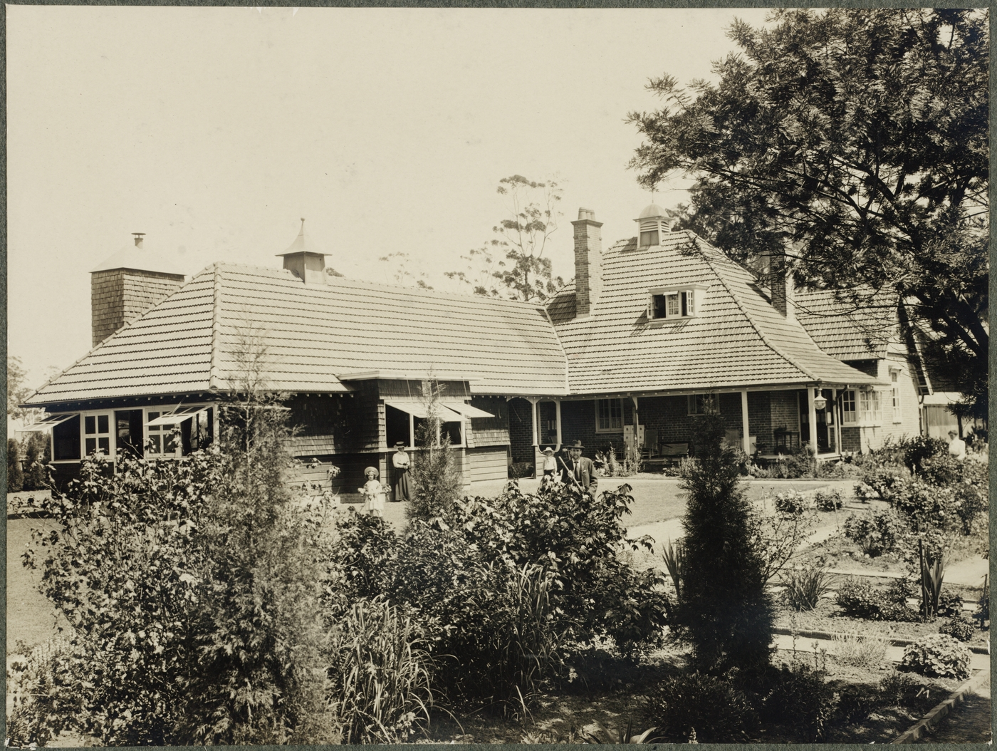 John Sullman and family, rear garden, Ingleholme, Boomerang Street, Turramurra, Sydney, ca. 1900, Ingleholme, Boomerang Street, Turramurra, Sydney, ca. 1906, State Library of New South Wales PXD 963